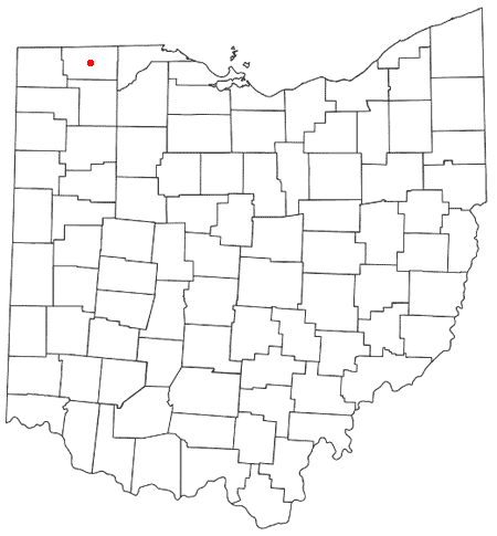 Map showing the location of Ottokee in Ohio